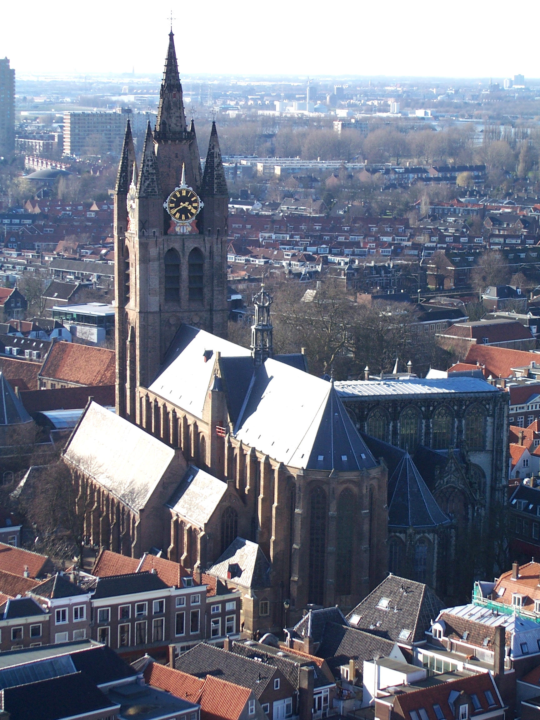 Old Church of Delft. Picture is made from the New Church.